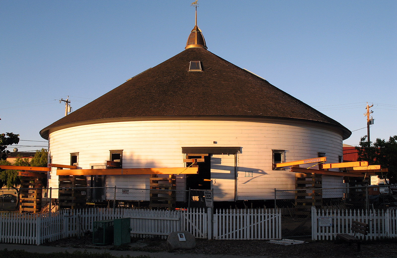 De Turk Round Barn — 819 Donahue St., Santa Rosa, California. Photographed from the west side of Prince St. near the intersection with Decker St. The Round barn is on the National Register of Historic Places listings in Sonoma County.